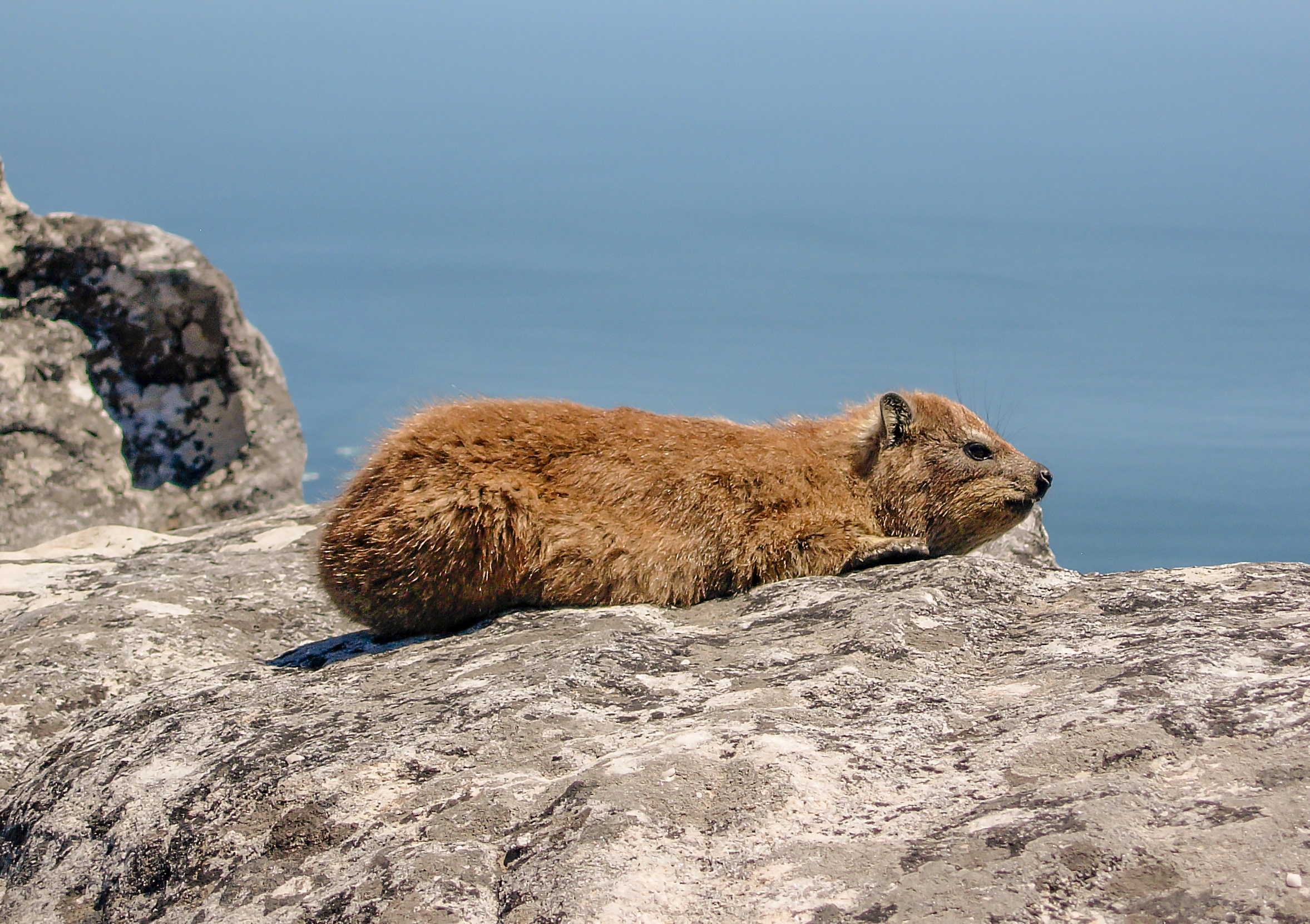 Dassie (Cape Hyrax) photgraphed on Table Mountain, Cape Town in February 2005 by Anthony Steele. The photo was taken on the rocks near the upper cable car station. The sea is visible in the background.